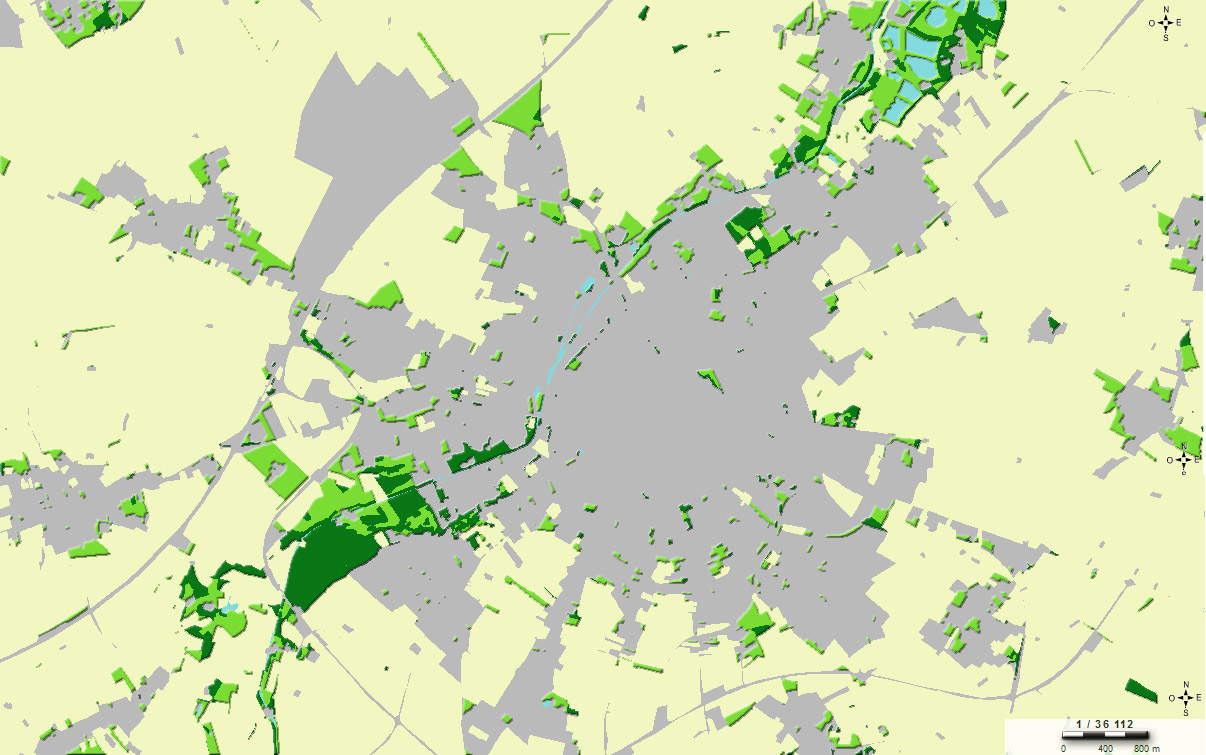 LANDSCAPE AROUND CAMBRAI, IN pROVILLE, NORD PA DE CALAIS, fRANCE